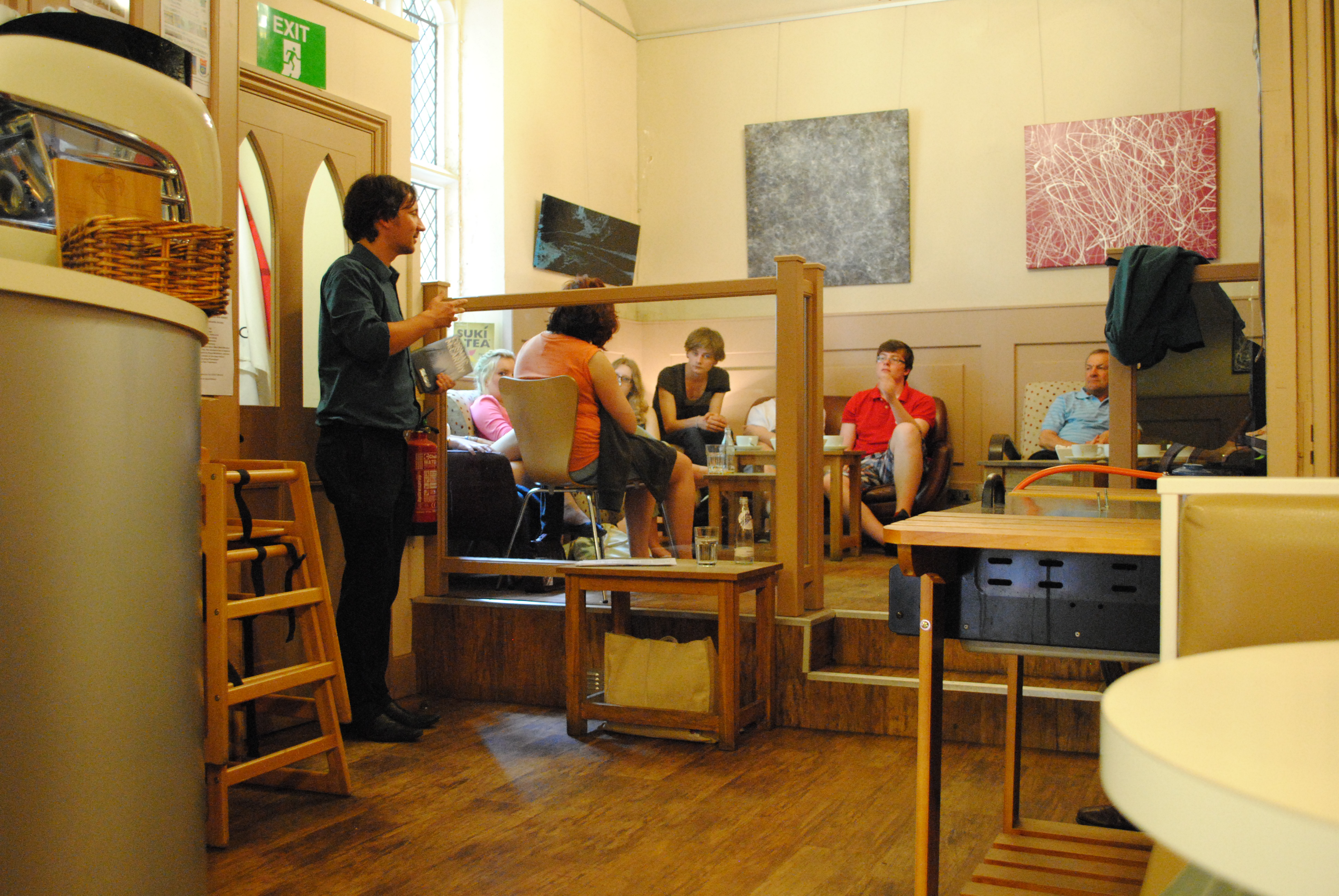 Image showing Guest Speaker Dr. Euan Gallivan at LPC on the 23rd June 2011.